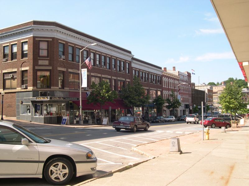 Downtown Bangor Maine. Photograph by : Blaine Puckett